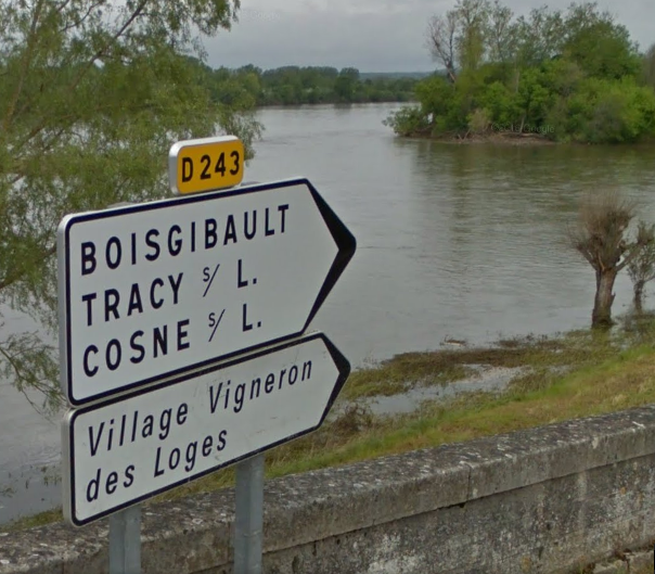 Boisgibault road sign in Pouilly sur Loire, along the Loire river.